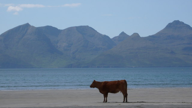 Deep in thought.......... Separate from the remainder of the herd but with a wonderful view.